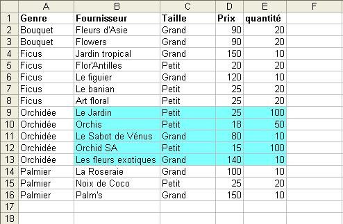 Une plage d'un tableur / a range in a spreadsheet